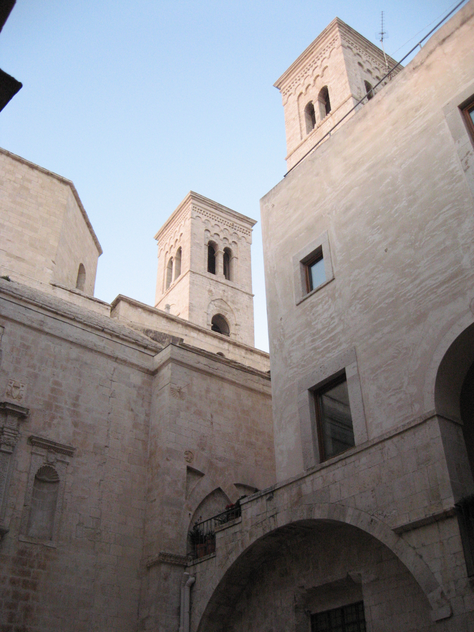 View of the towers of San Corrado, from the piazza before the main entrance